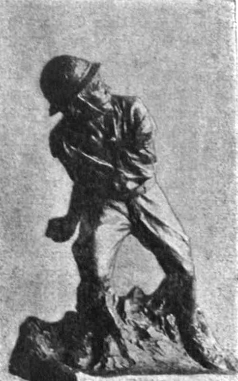 Statue Grănicerul Mușat by Ion Dimitriu-Bârlad, 1919